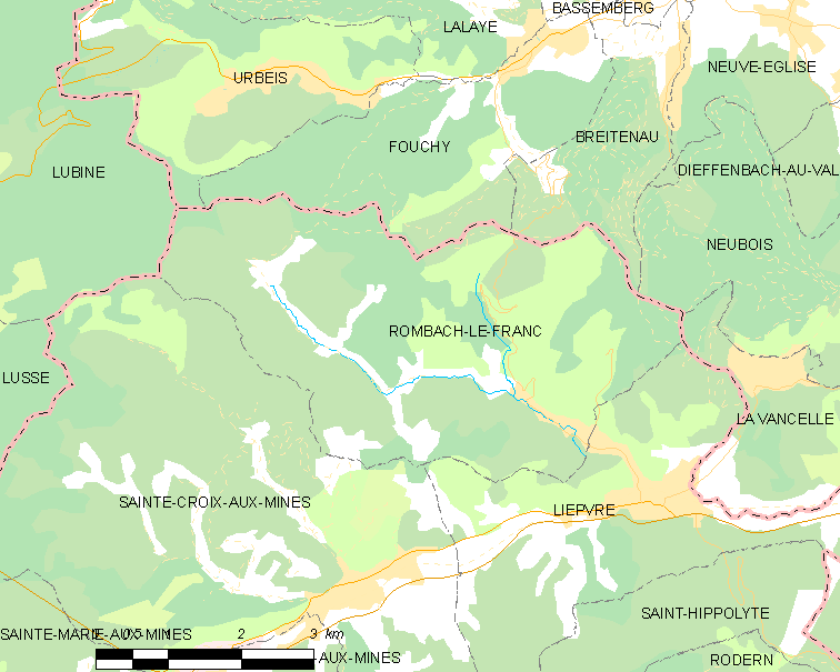 Map of French municipality